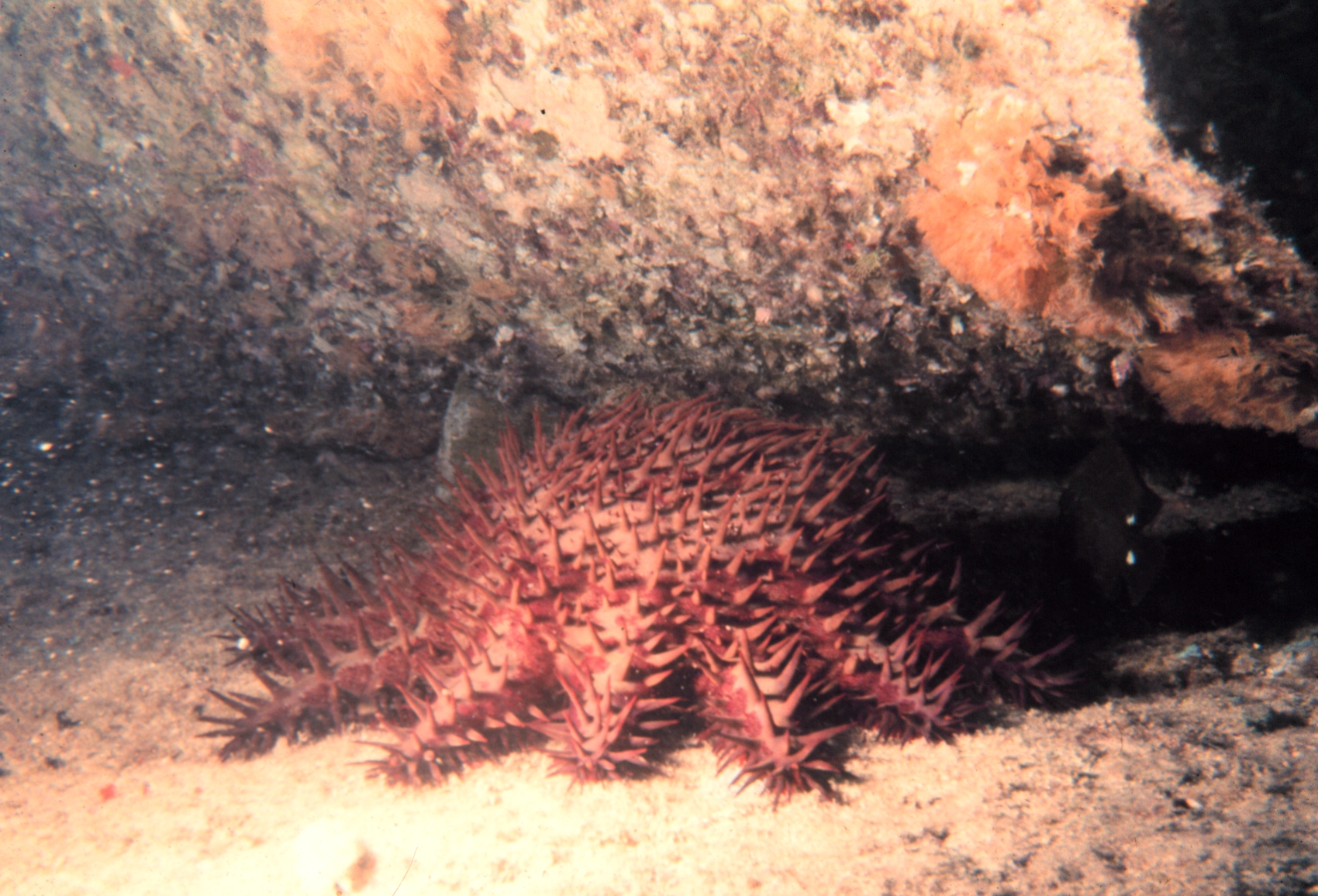 Acanthaster planci